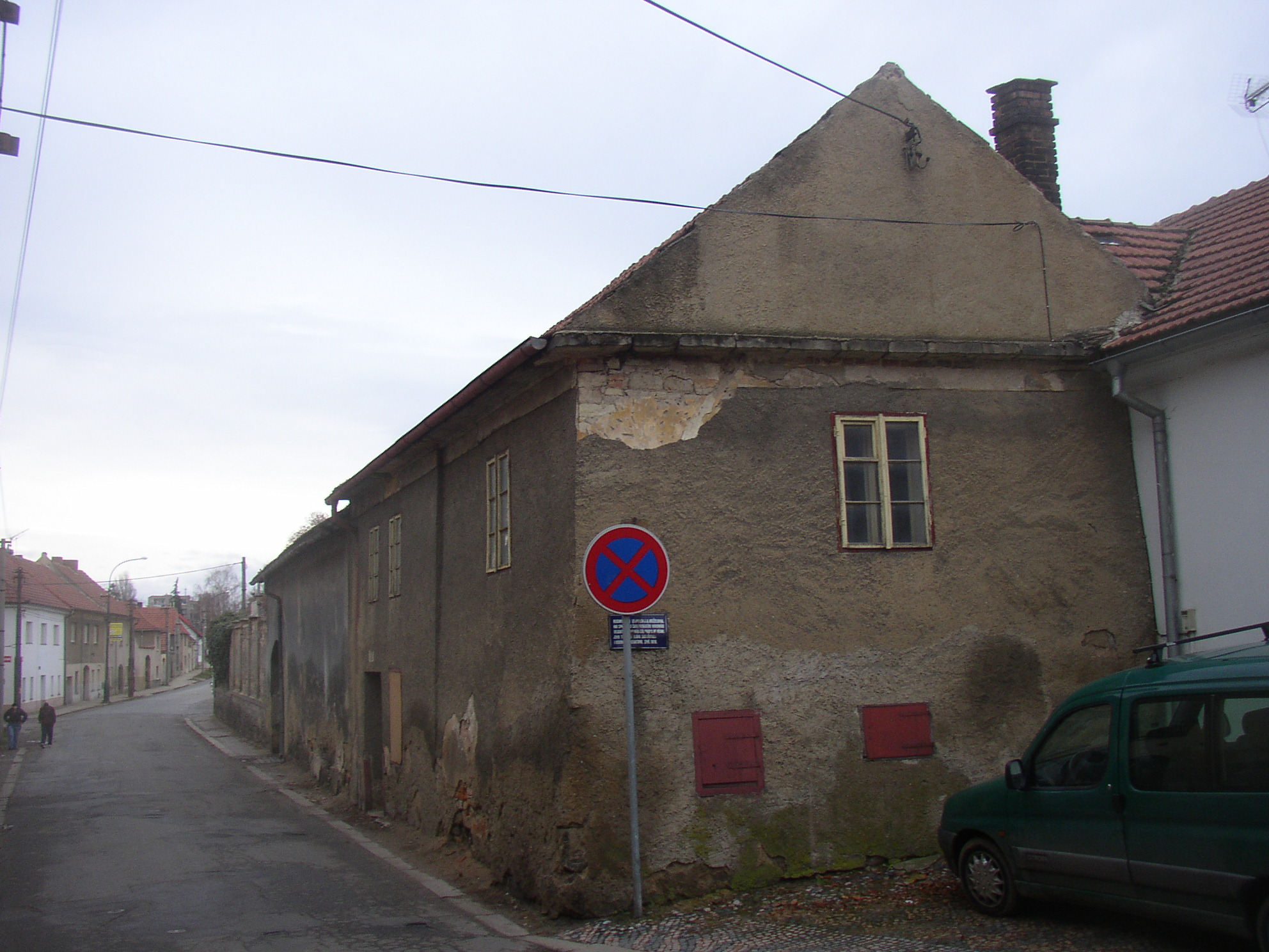 Birth house of Leopold Koželuh in Velvary (corner of Slánská and Na Brčkově streets), Kladno District, Czech Republic.